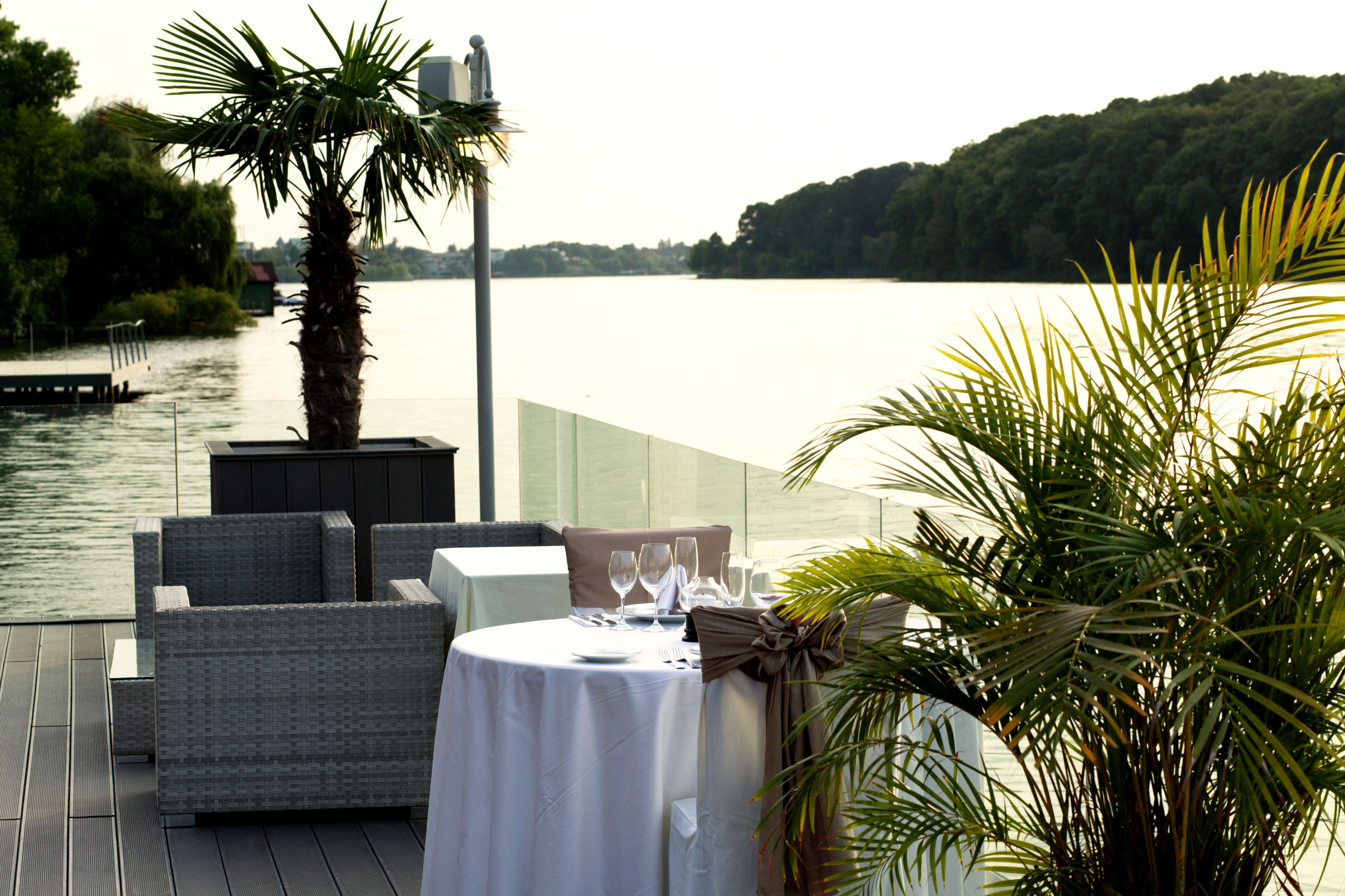 Snagov Club - on the wharf - shore of lake Snagov